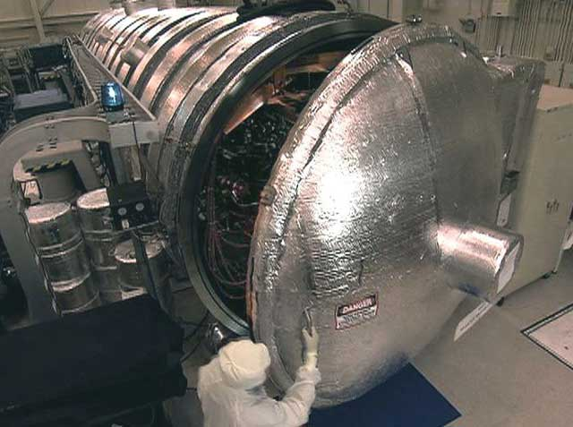 Photo of a vacuum chamber being opened by an engineer.